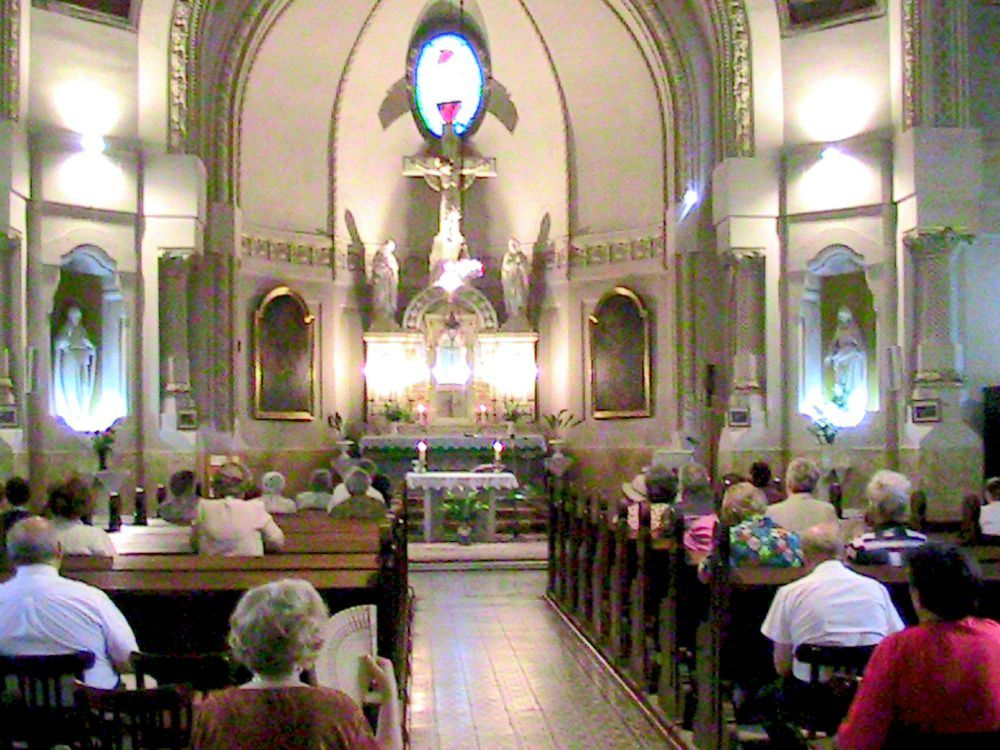 The Church of "Piarist High School" in Timisoara, Romania